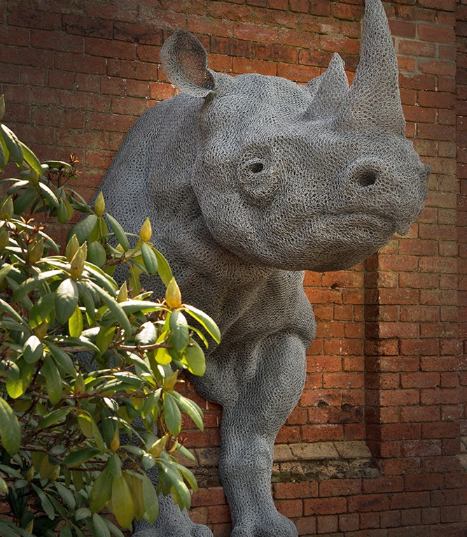 This is a flipped copy of a free image in Commons, (source above), the purpose of which to face the image inward on the page.